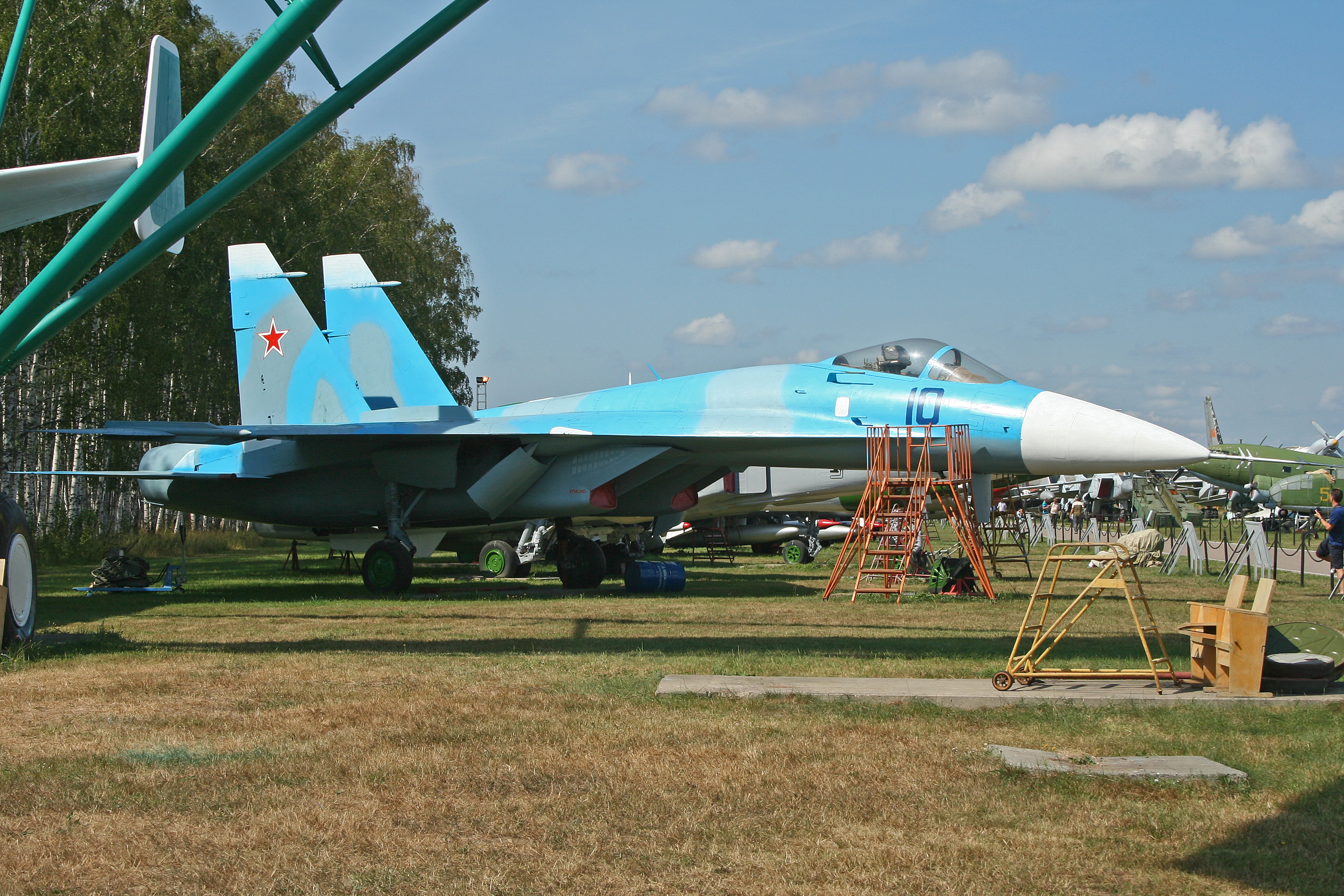 This is the first prototype Flanker which first flew on 20th May 1977. Although the layout is the same, there are many detail differences between the initial T-10 aircraft and the redesigned T-10S, the forerunner of the production aircraft. c/n T.10-1. On display at the Russian Air Force Museum. Monino, Russia. 13-8-2012